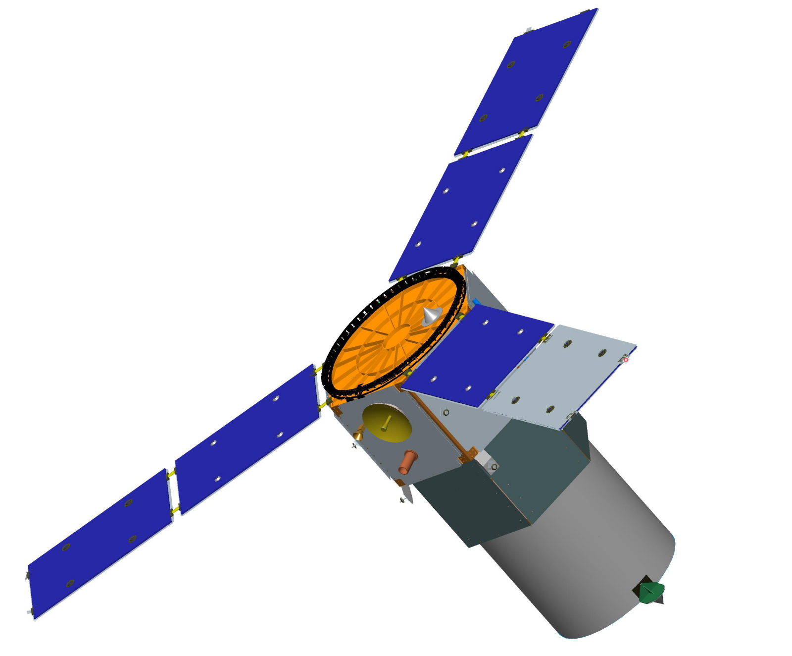 Artist's rendering of the TacSat-3 satellite.